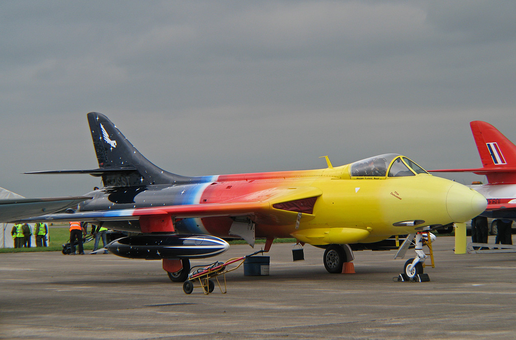 "Miss Demeanour", a privately-owned Hawker Hunter F.58 photographed at RAF Elvington on the 18 of August 2007 by Brian Burnell.